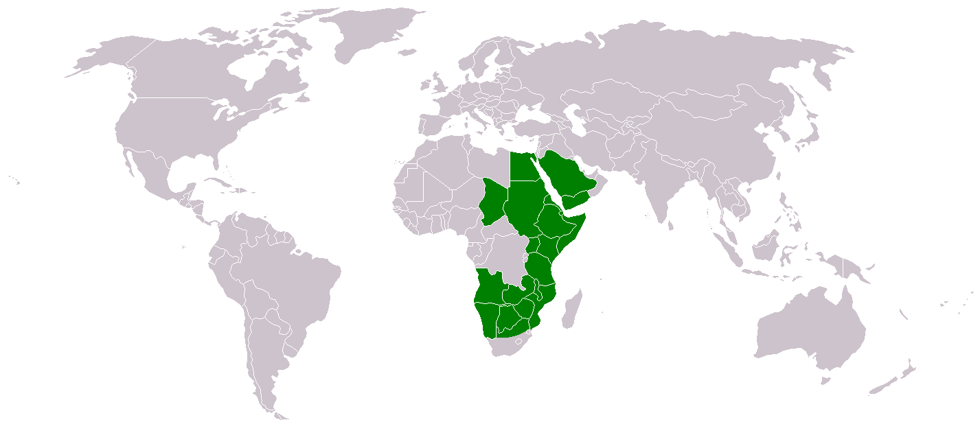 Acacia mellifera range map created with a blank map from the Commons, info from ILDIS LegumeWeb and the GIMP. More detail from USDA-GRIN [1]